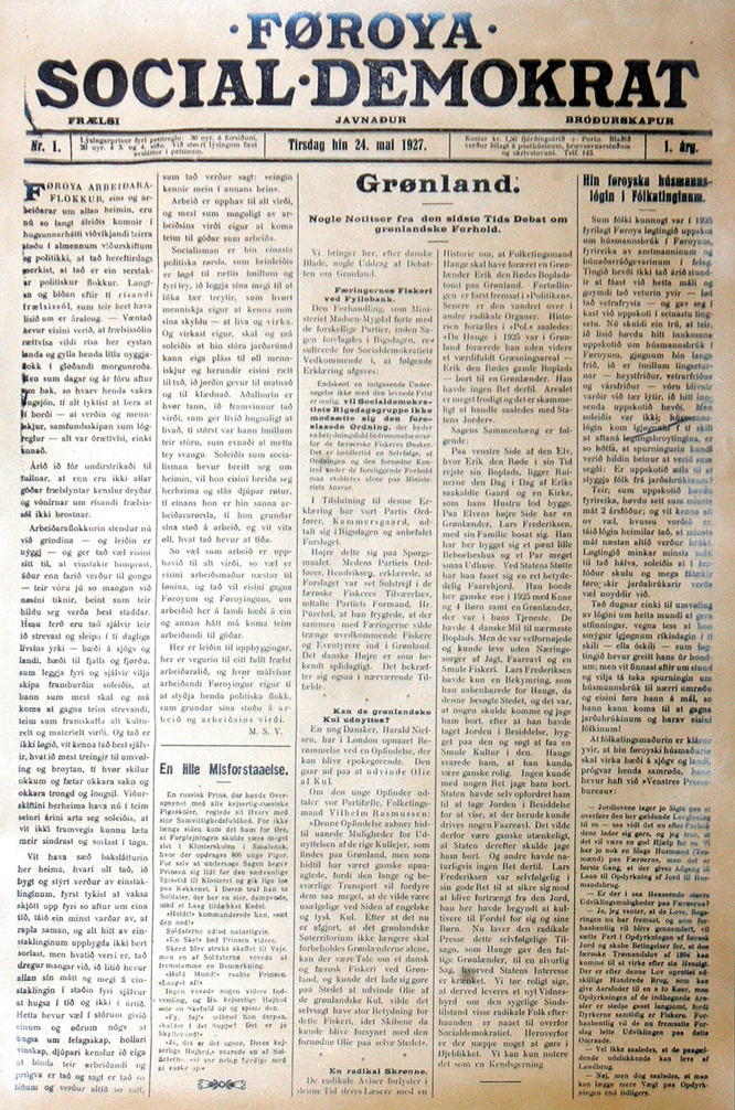 Frontpage of Føroya Social Demokrat, May 24, 1927.